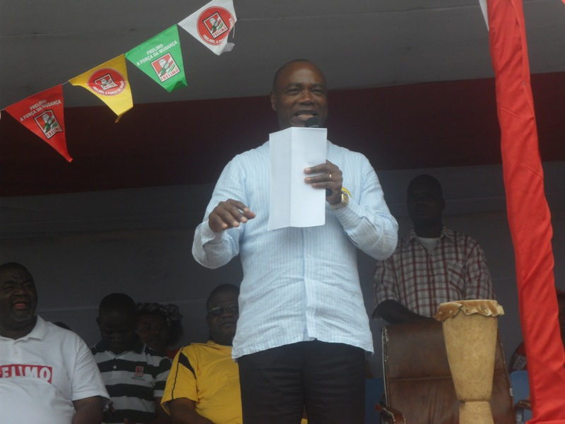 José Pacheco, Minister for Agriculture of Mozambique, at a FRELIMO party rally in Nampula, Mozambique